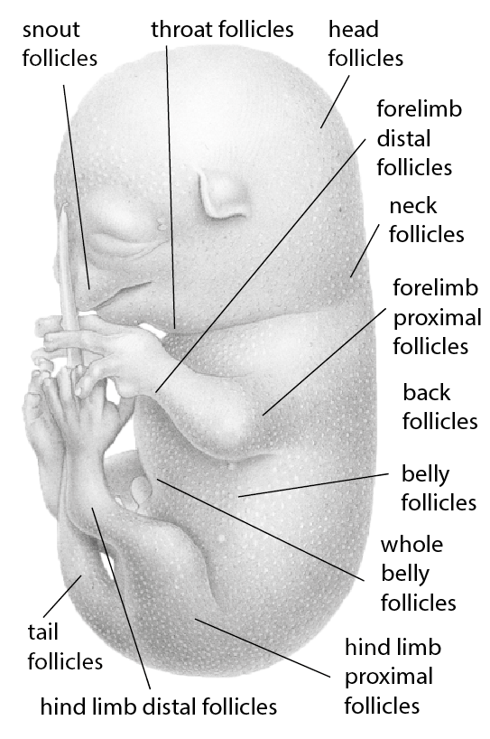 Standard Event System character depiction